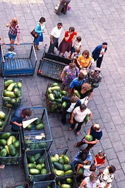 People queueing for watermelons in East Berlin, 1977 Other information Photo by George Garrigues.